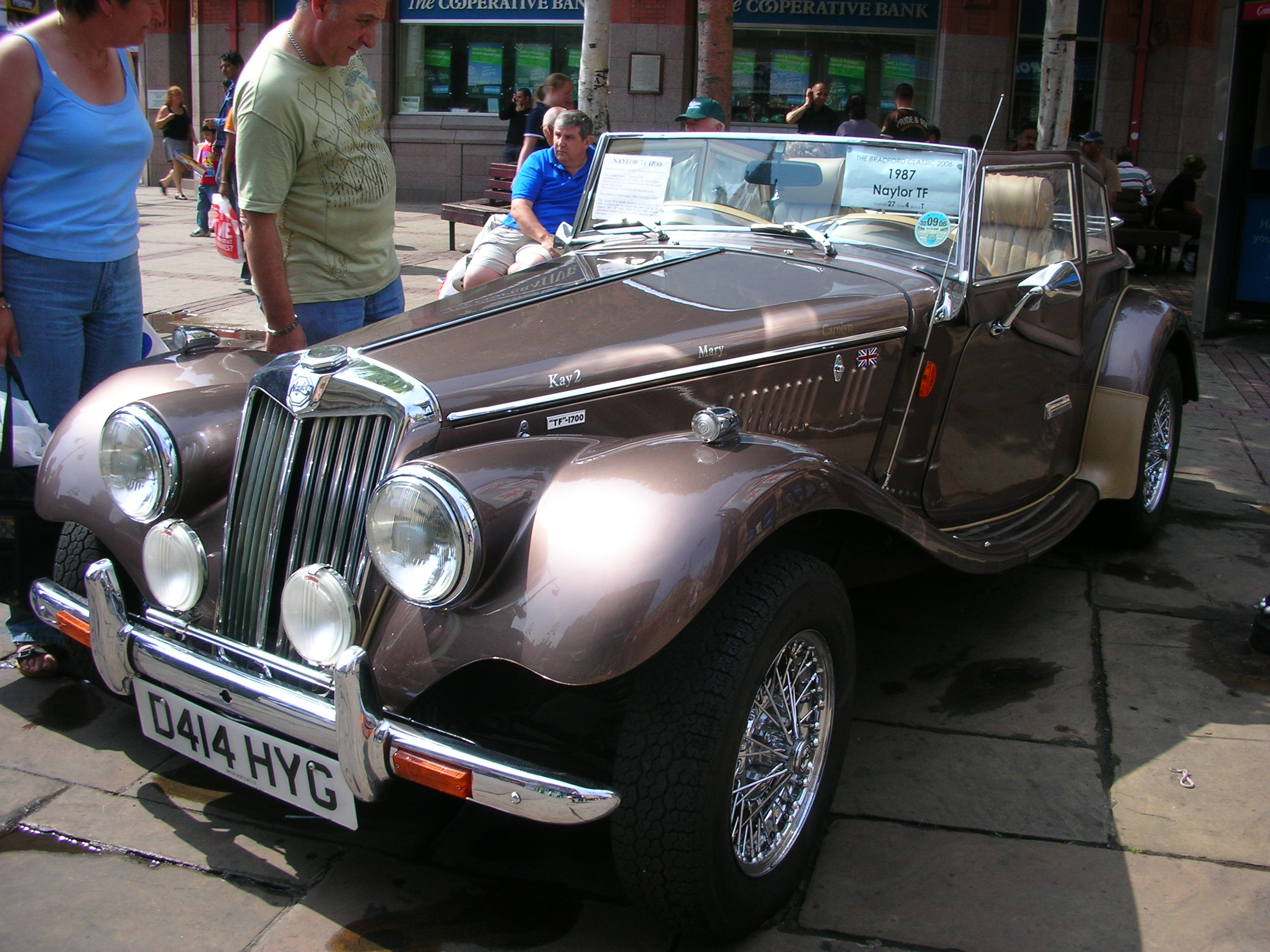 1987 Naylor TF. First registered in November 1987, this is the very car driven by Margaret Thatcher herself in an attempt to boost small British manufacturers.